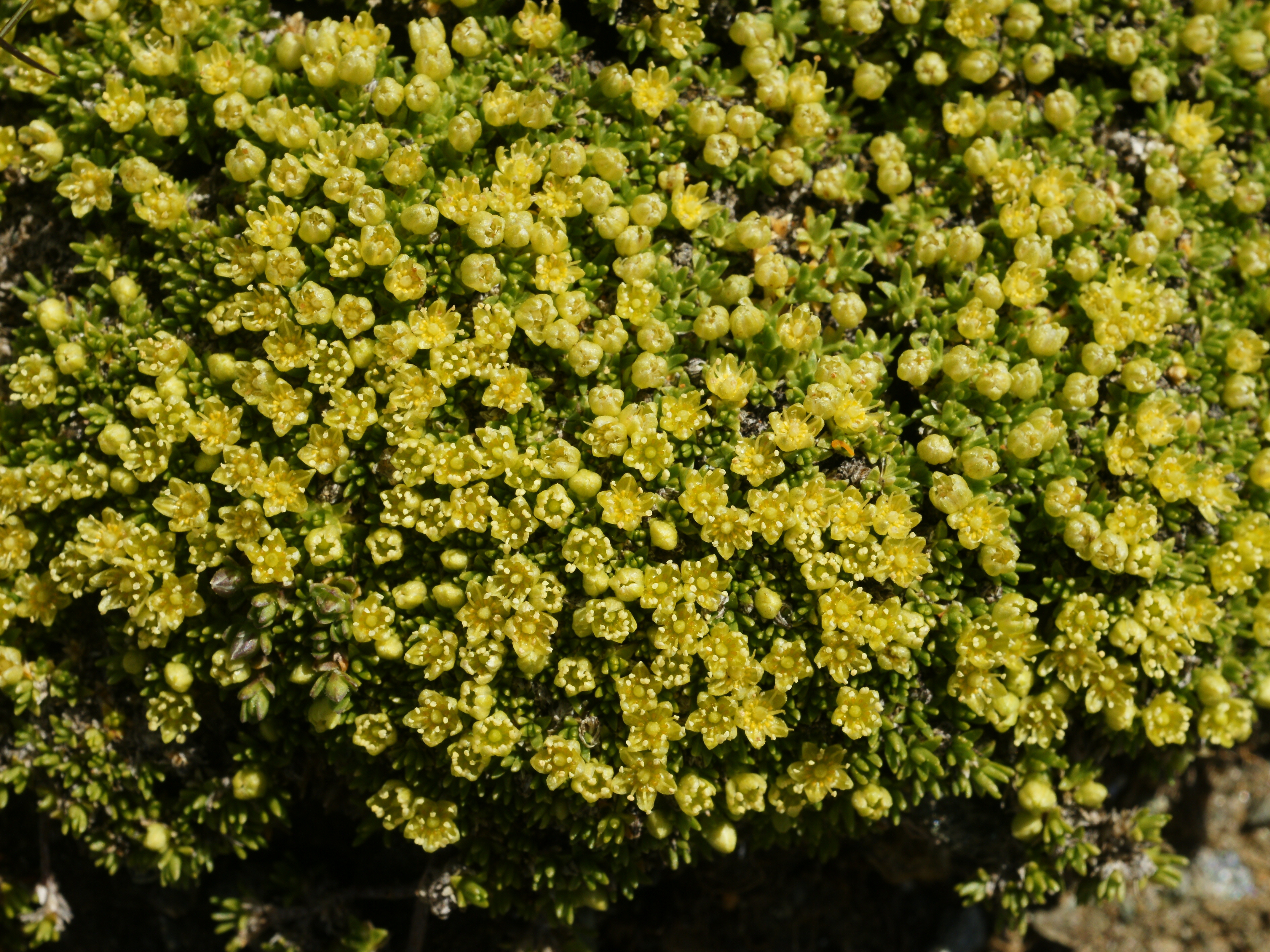 Cyphel at Gornergrat, Switzerland